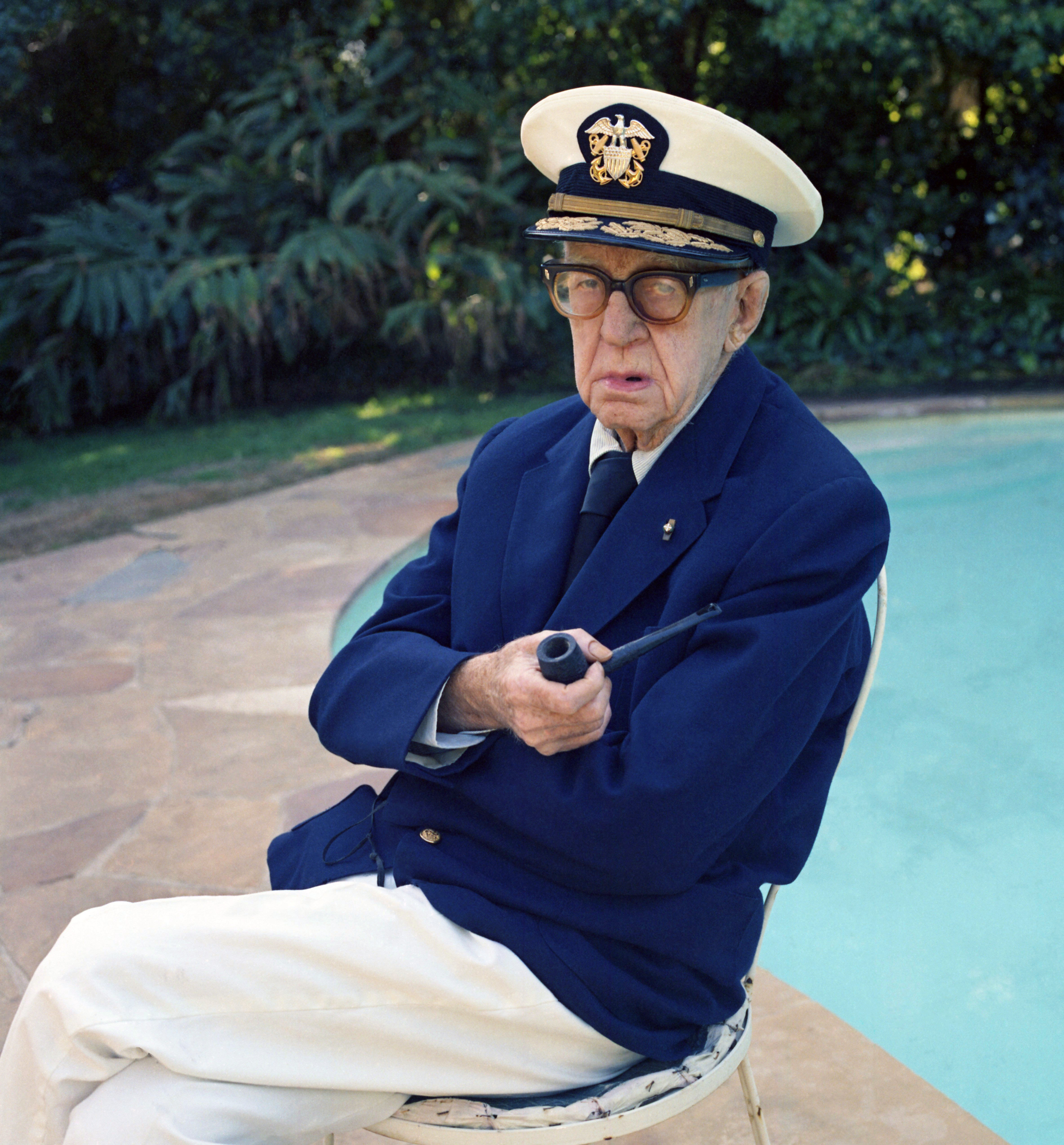 John Ford by his Pool in Bel Air dressed in his Admirals uniform.